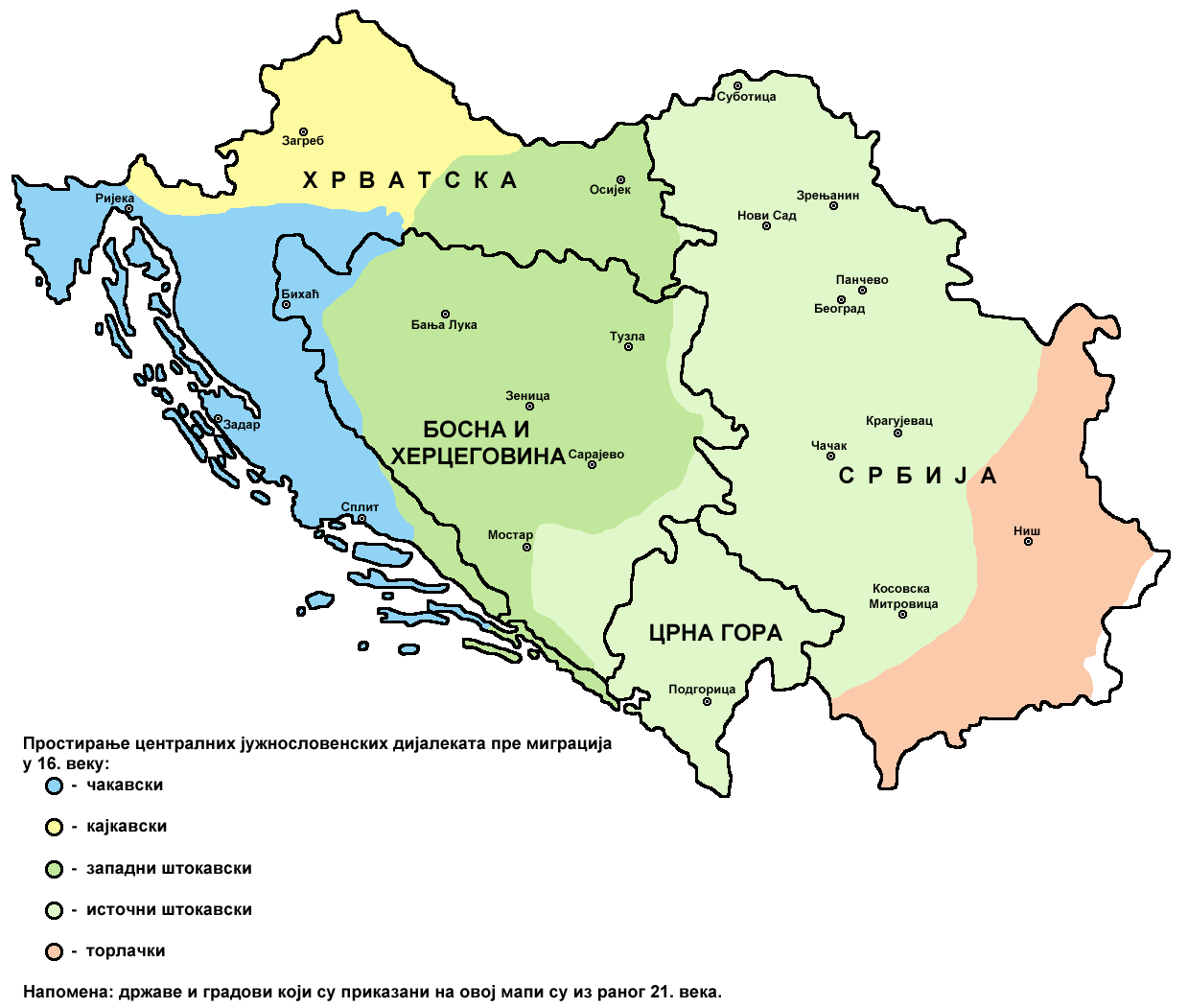 Distribution of central South Slavic dialects before 16th century migrations.